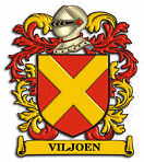 Coat-of-arms of Viljoen family